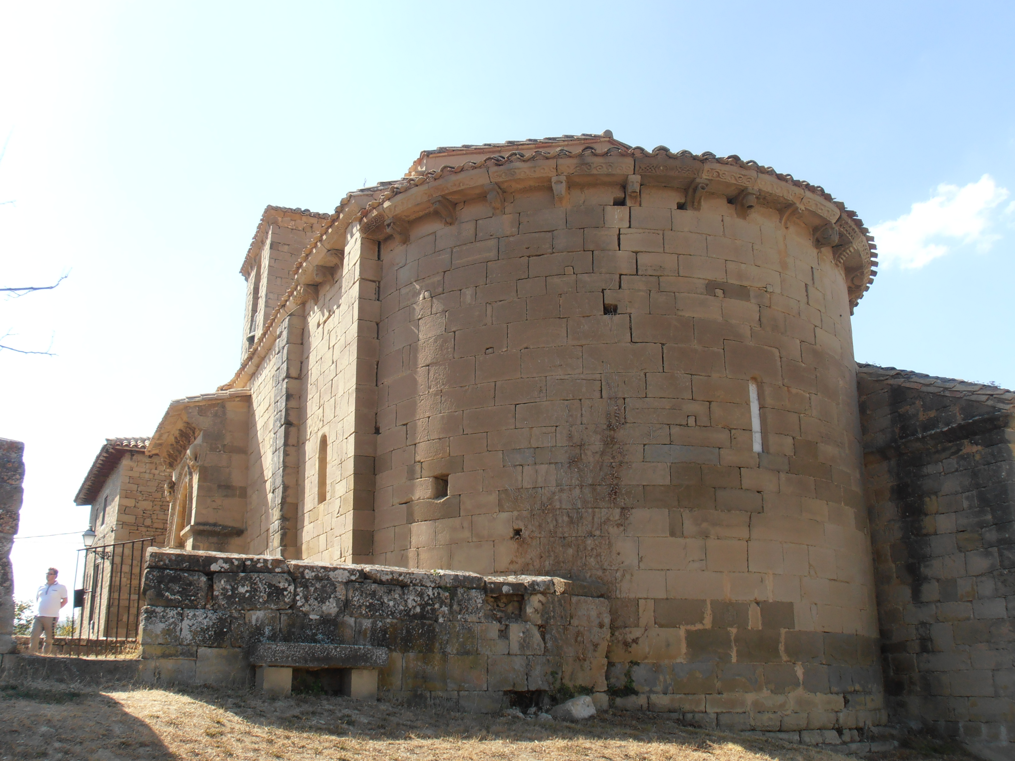 St. Martin Church - Artaiz